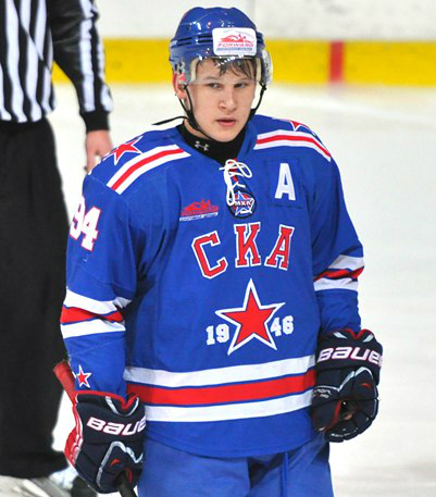 Alexander Barabanov playing for SKA-1946 against Dynamo Shinnik at the MHL Playoffs, season 2012/2013